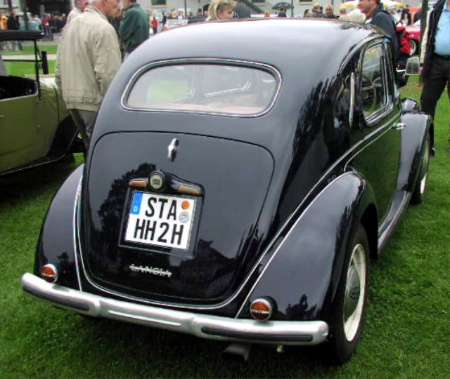 Rear view of Lancia Ardea sedan, fourth series (1949-1952)